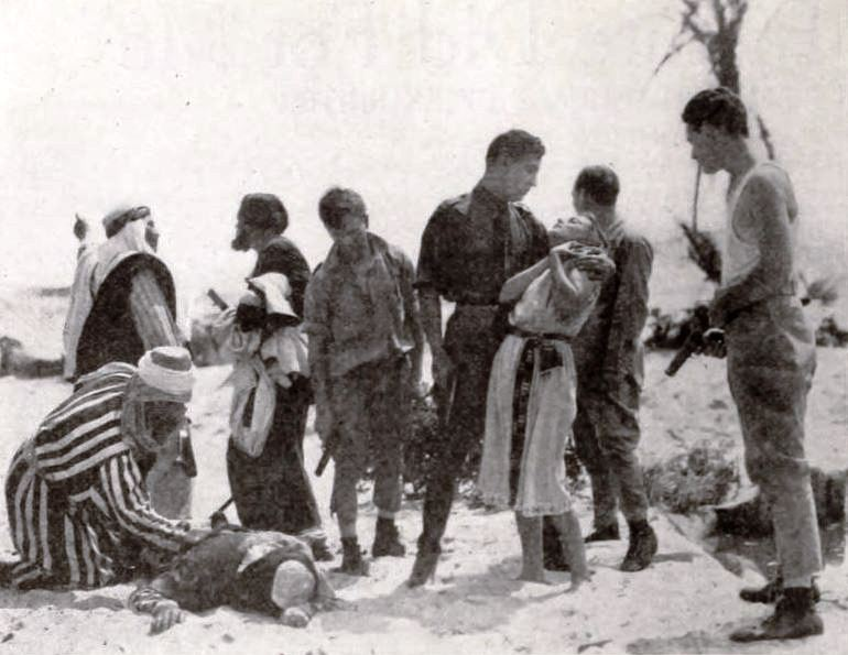 Still from the American drama film A Man of Stone (1921) with Conway Tearle, on page 78 of the November 19, 1921 Exhibitors Herald.